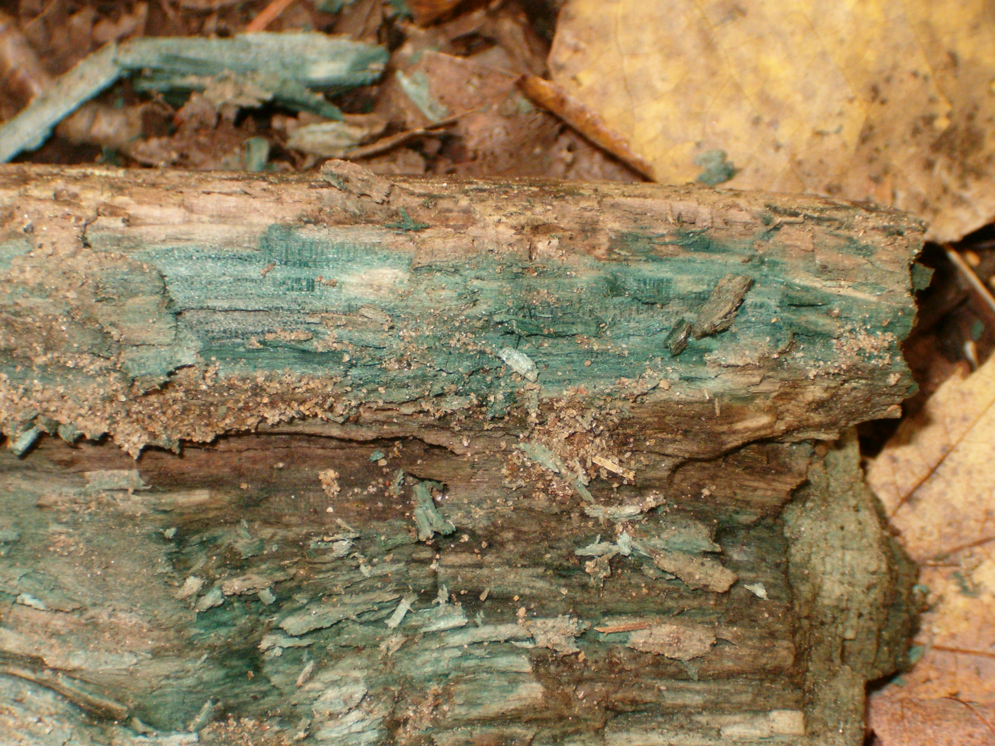 Wood stained by the fungus Chlorociboria aeruginascens (Nyl.) Kanouse ex C.S. Ramamurthi, Korf & L.R. Batra